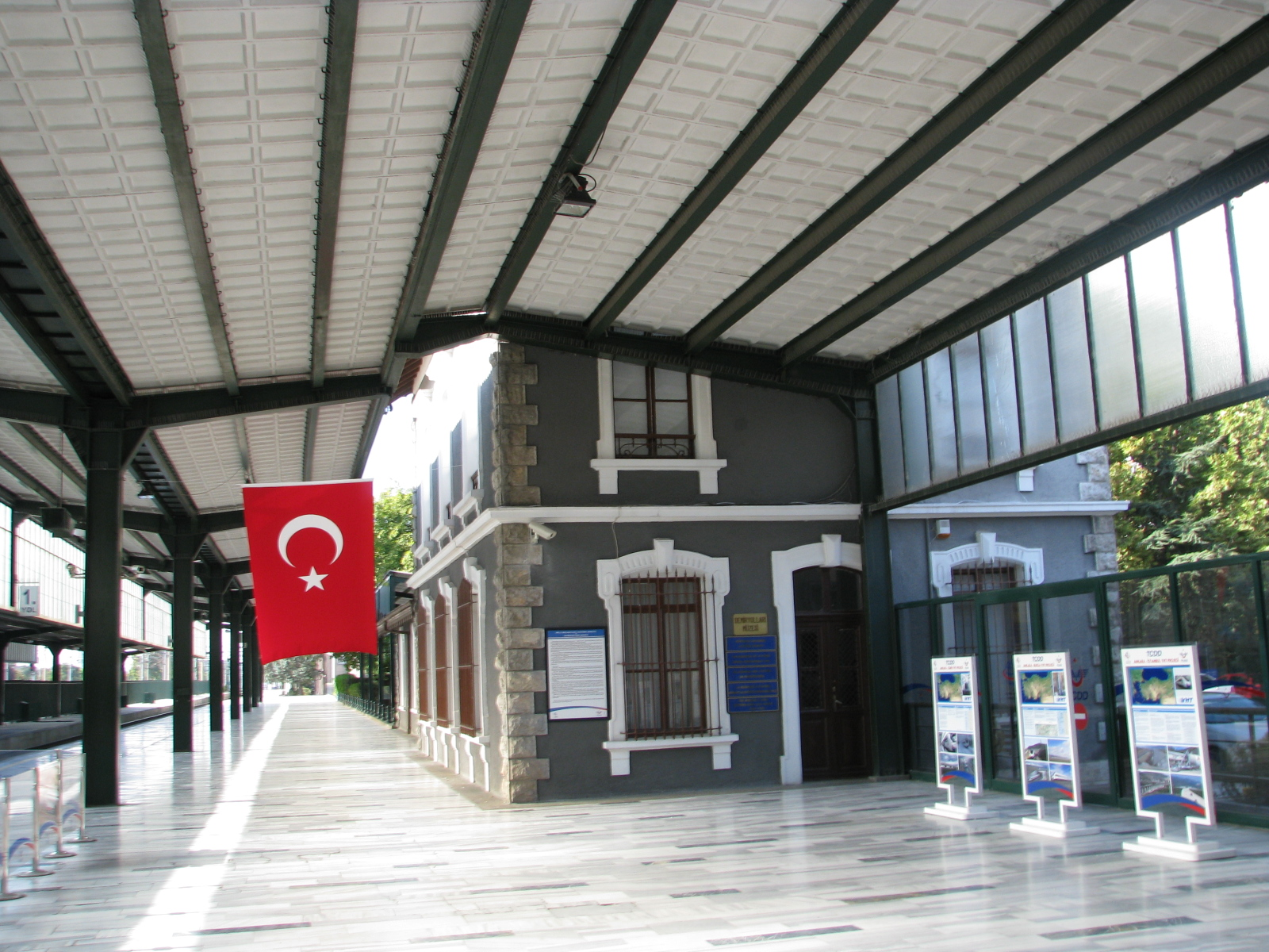 Ataturk's Residence during the War of Independence and Railways Museum, located within Ankara Station Complex.